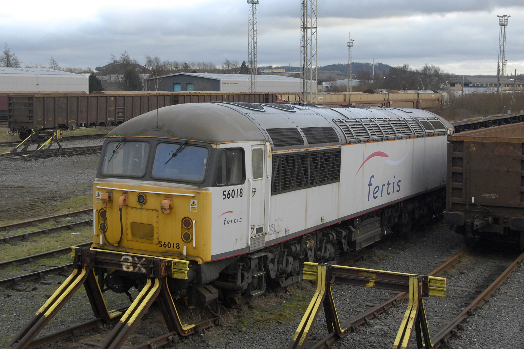 56018 is shown stabled at Warrington.